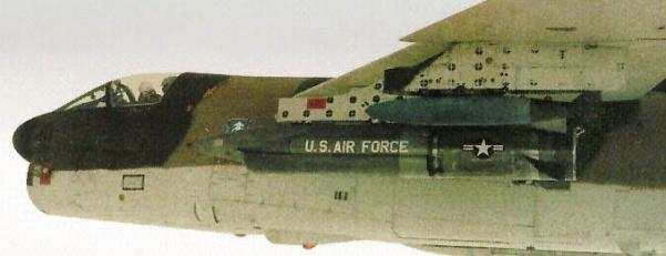 Advanced Strategic Air-Launched Missile (ASALM) Propulsion Test Vehicle (PTV) undergoing flight tests aboard a LTV A-7D Corsair II.